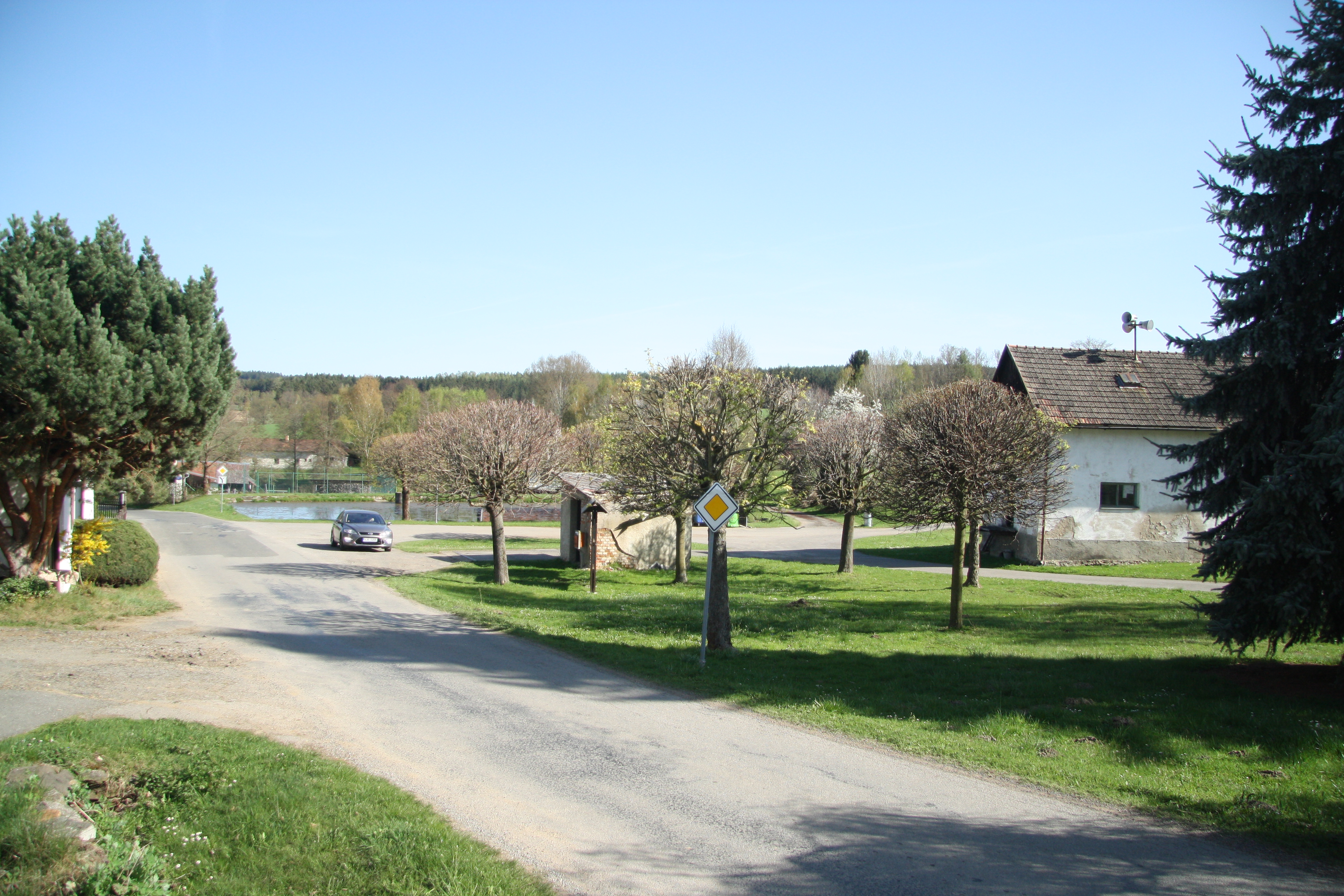 Center of Zmišovice, Červená Řečice, Pelhřimov District.